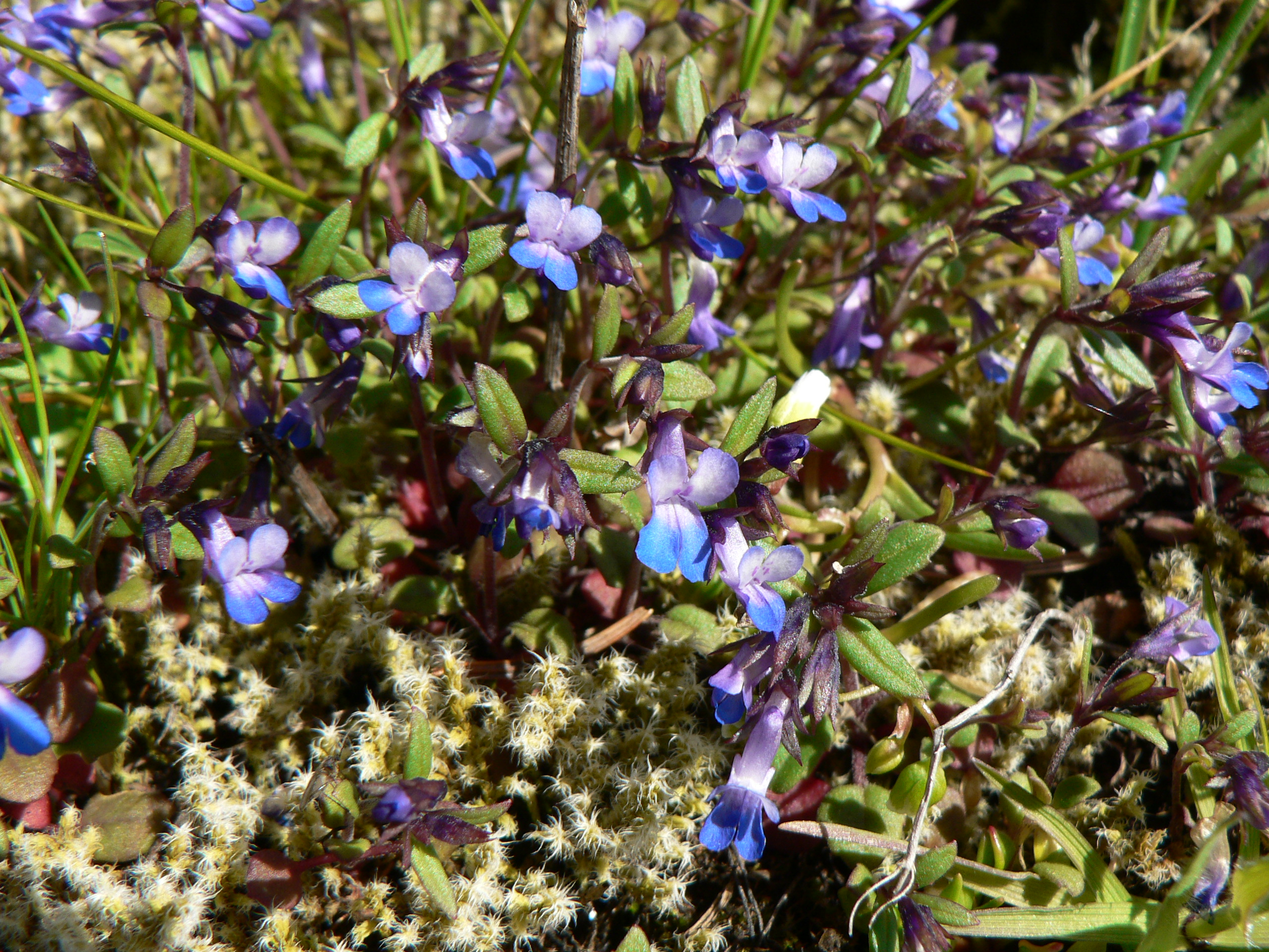 Small-Flowered Blue-Eyed Mary, Maiden Blue Eyed Mary